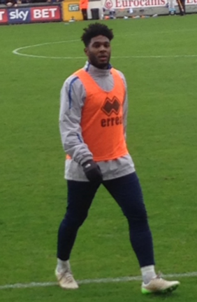 Ellis warming up for Bristol Rovers in 2015